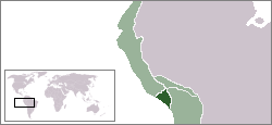 Locator map for the Kunti Suyu